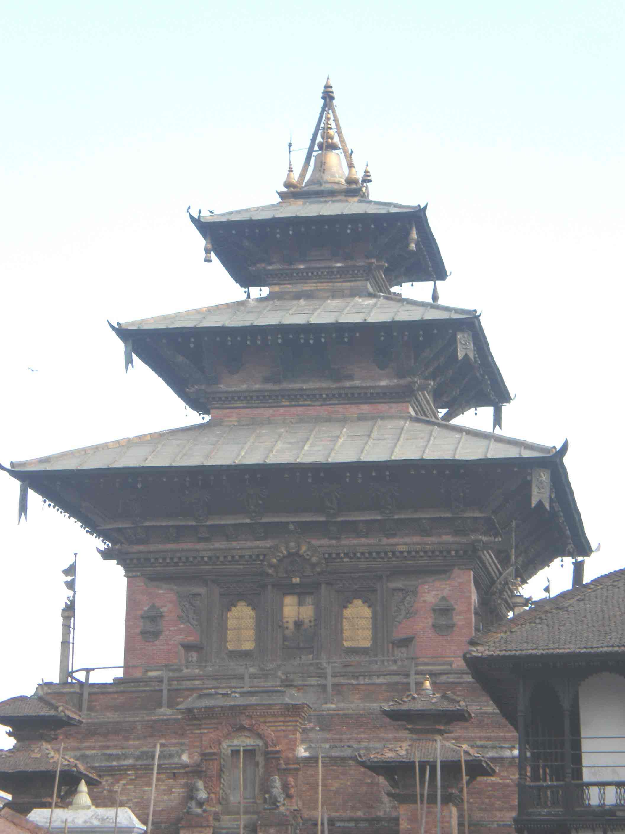 Temple of Talejubhawani, the presiding deity of the Malla Dynasty